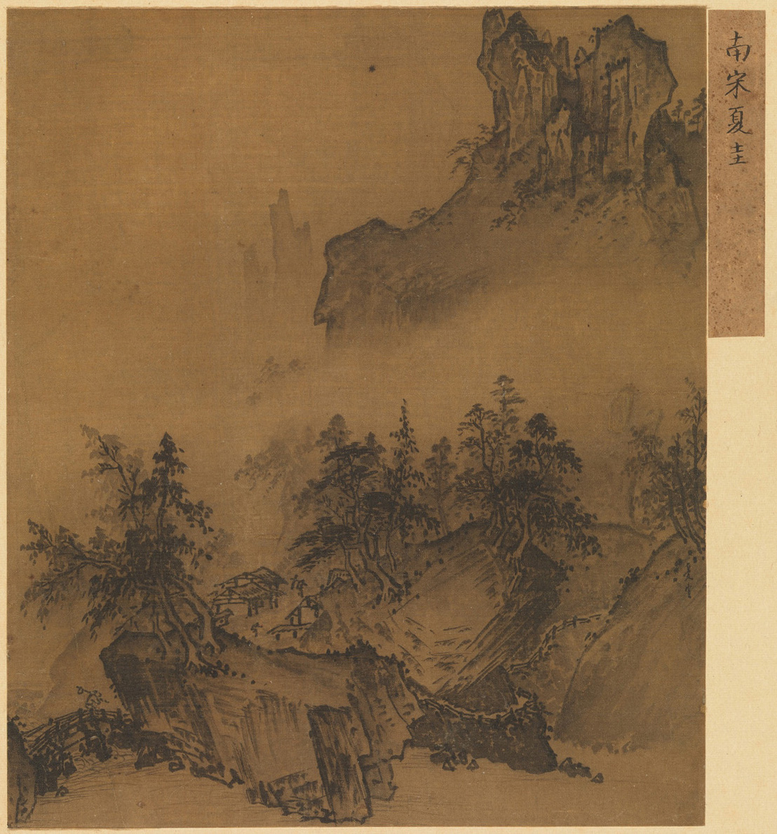 China; Album leaf; Paintings